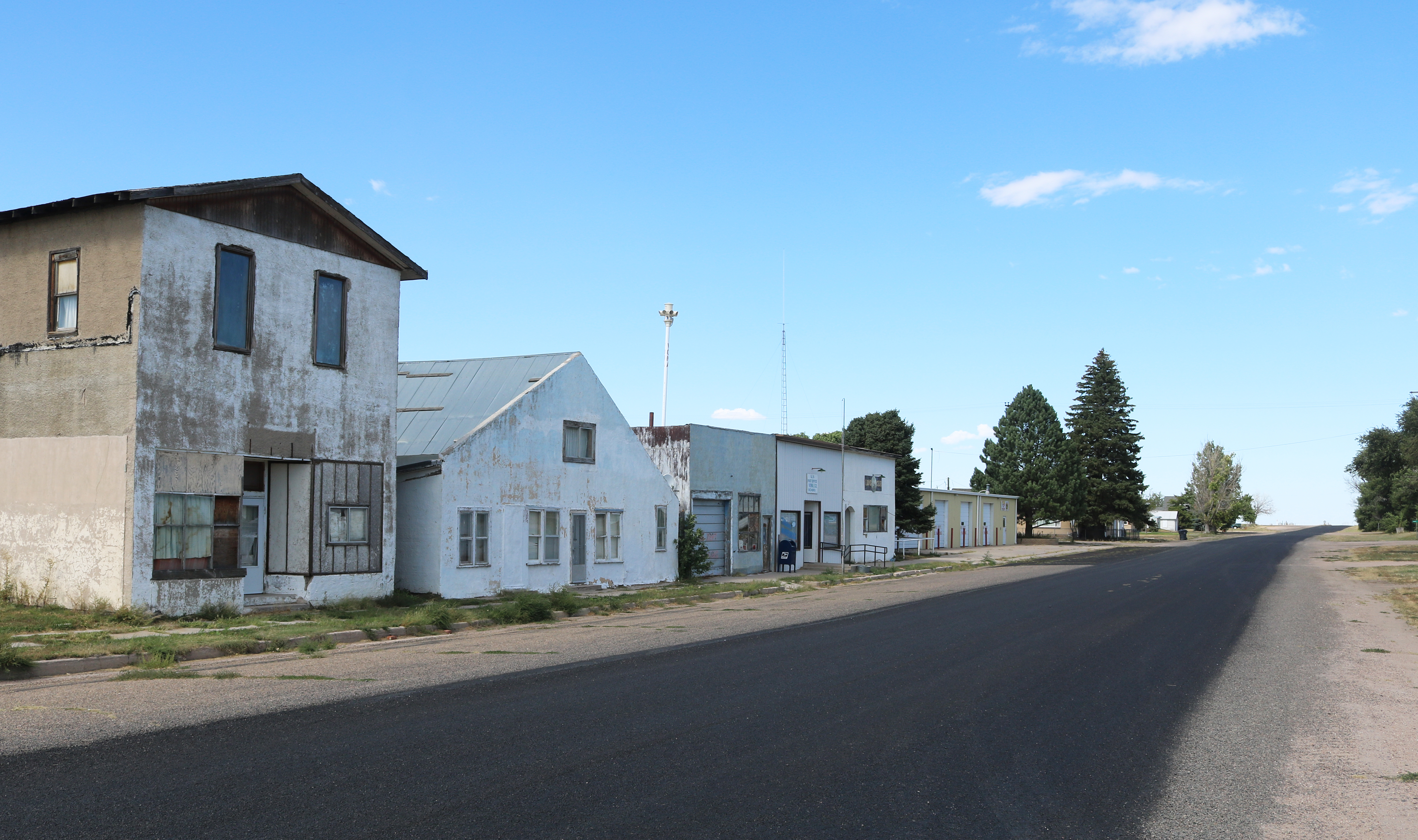 1st Avenue in Vona, Colorado, the town's main street. The street is also signed as Kit Carson County Road 23.